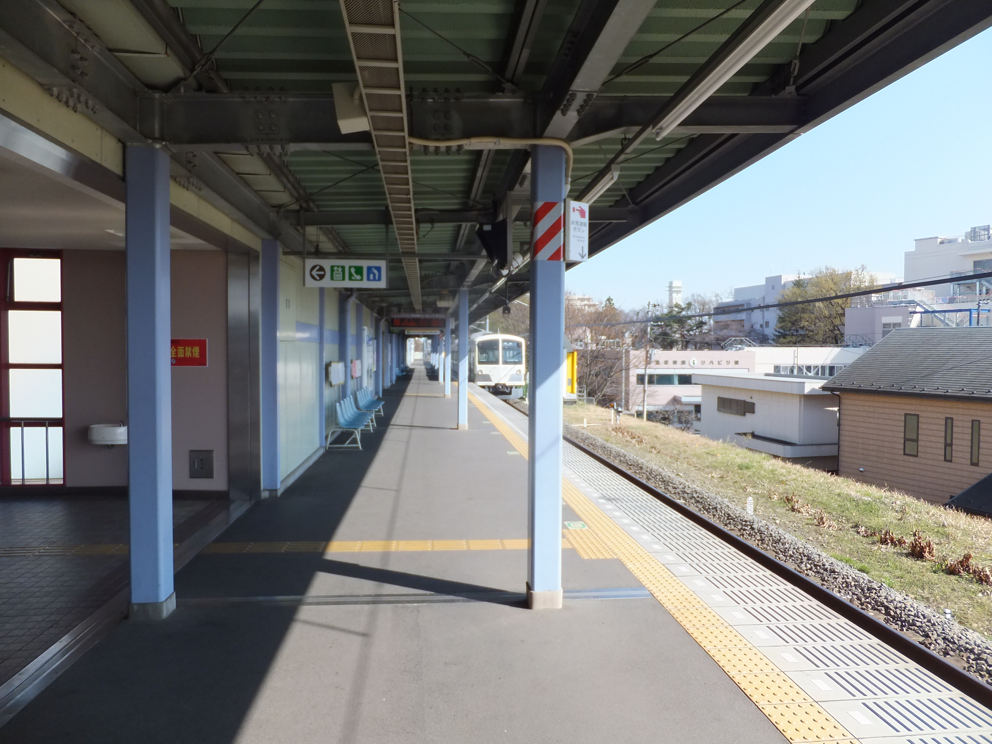 Yasaka Station on the Seibu Tamako Line, in Higashimurayama, Tokyo, Japan